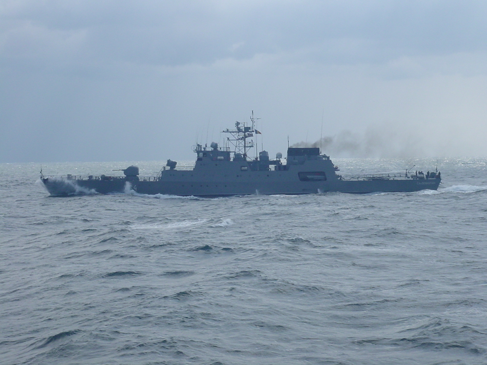 Contraamiral Eustațiu Sebastian corvette of the Romanian Navy participating in "Litoral 07" military exercise.